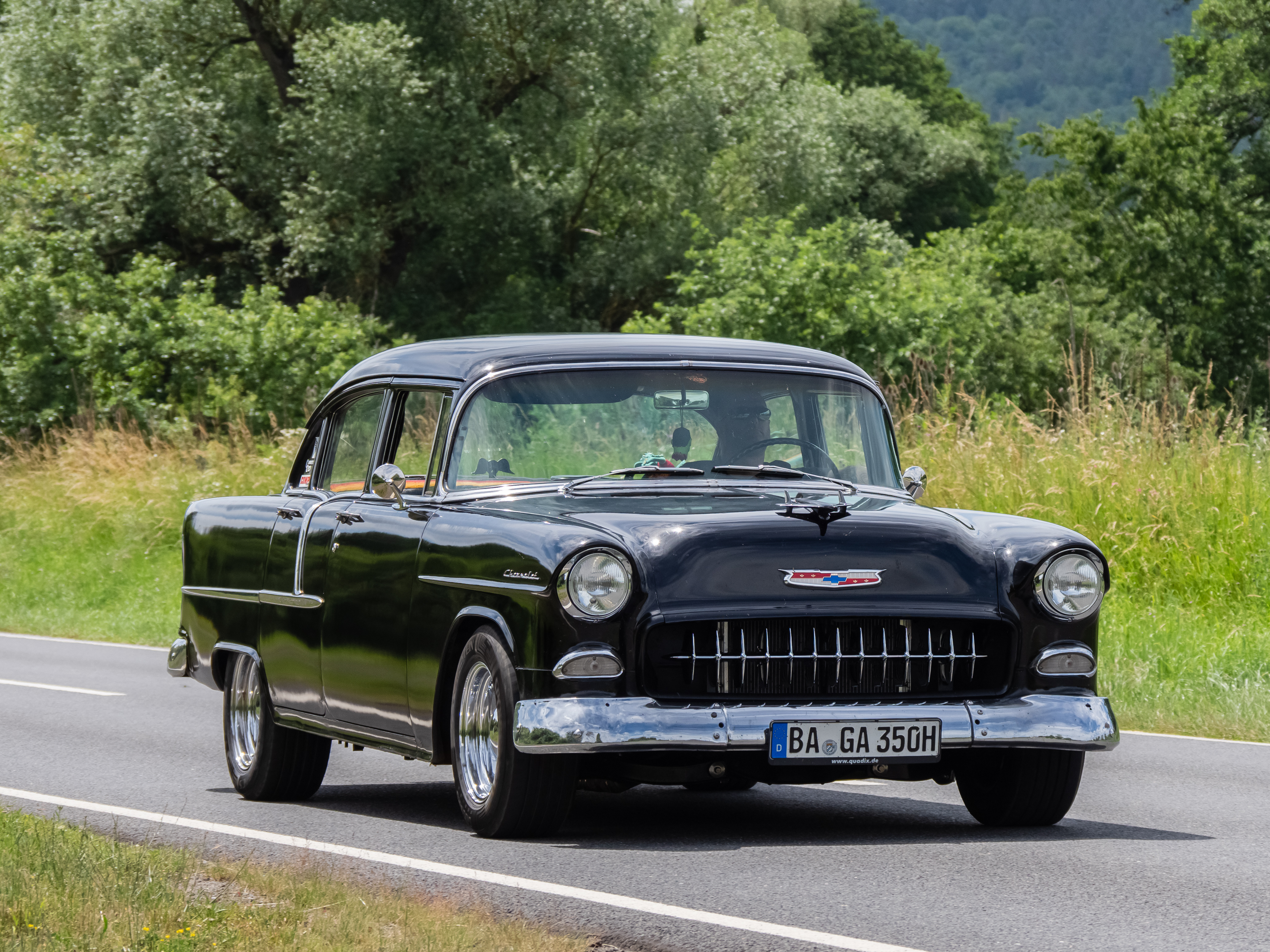 Chevrolet Bel Air 1955 at the Oldtimer Meeting Ebern